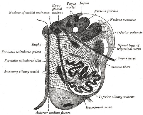 Detail of the Medulla Oblongata in the human brain